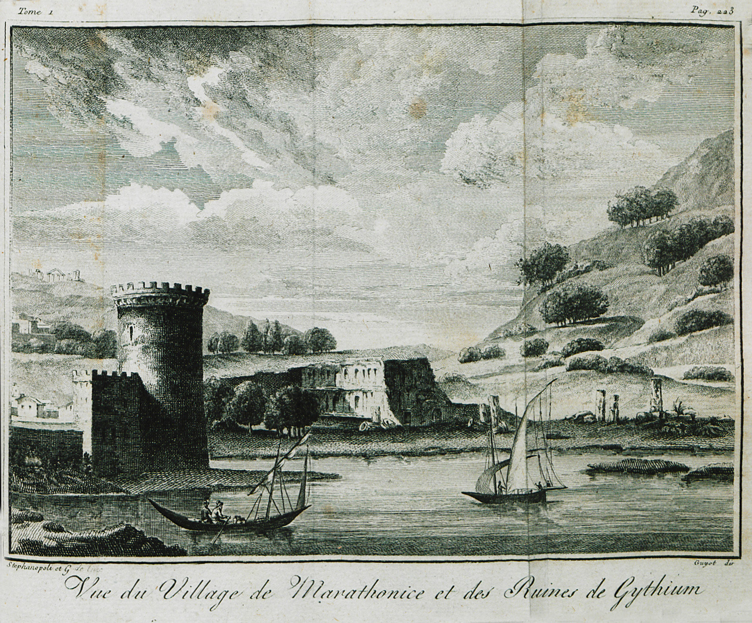 Vue du village de Marathonice et des ruines de Gythium - Stephanopoli Dimo And Nicolo - 1800